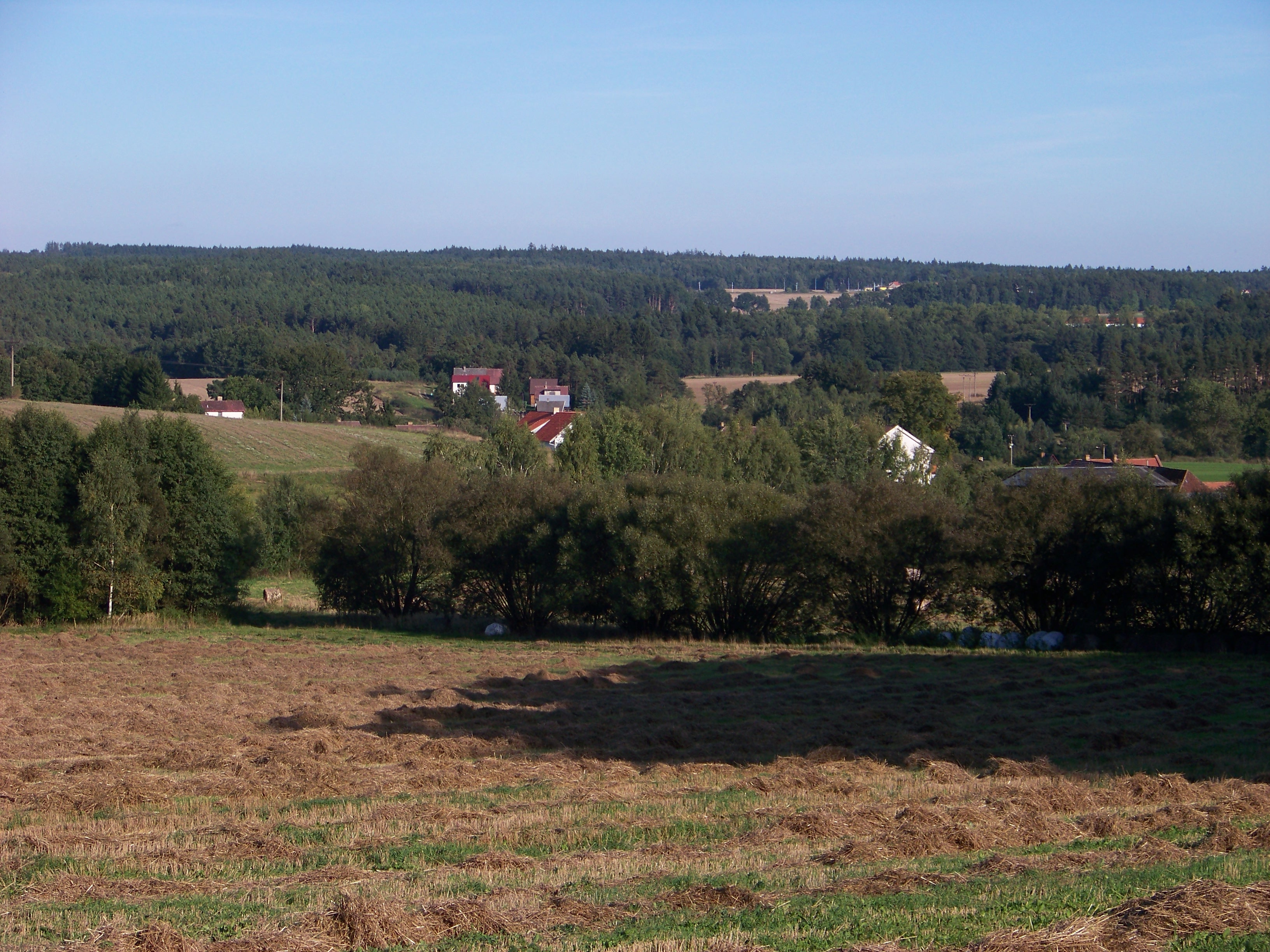 Bechyně-Lišky and Černýšovice-Hutě, Tábor District, South Bohemian Region, the Czech Republic.